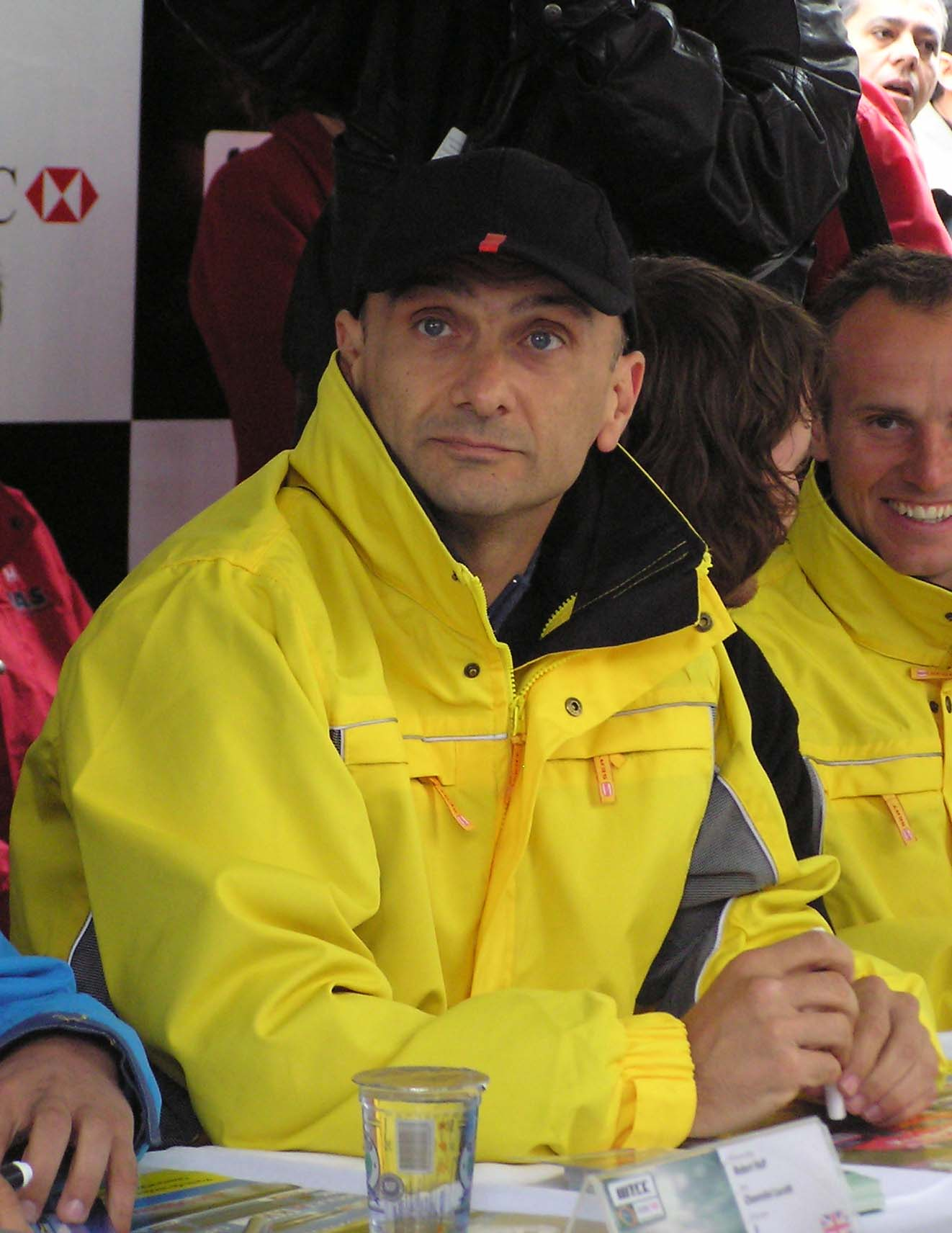 World Touring Car Championship 2006 Curitiba: Gabriele Tarquini (SEAT Sport Italia)